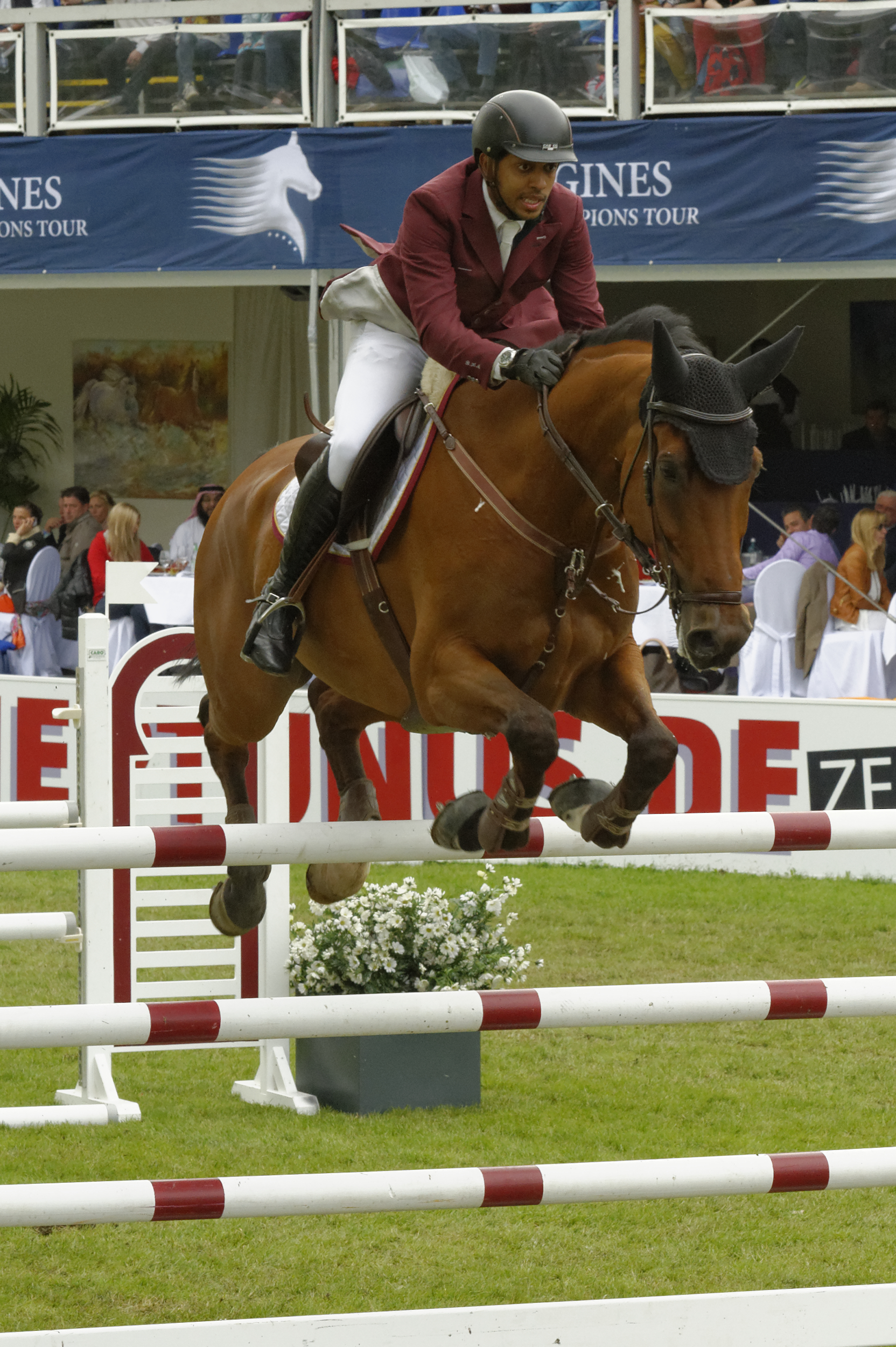 Internationales Pfingstturnier Wiesbaden 2013: Bassem Hassan Mohammed (Katar) mit Cantinero The making of this document was supported by the Community-Budget of Wikimedia Germany.